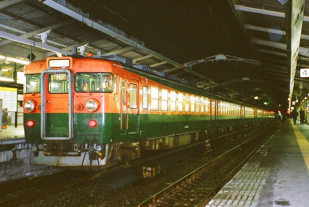 JR East 165 series at Nagoya Station on Ogaki overnight train